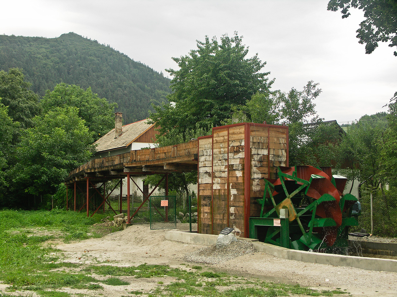 Water power startion in Necpaly, Slovakia